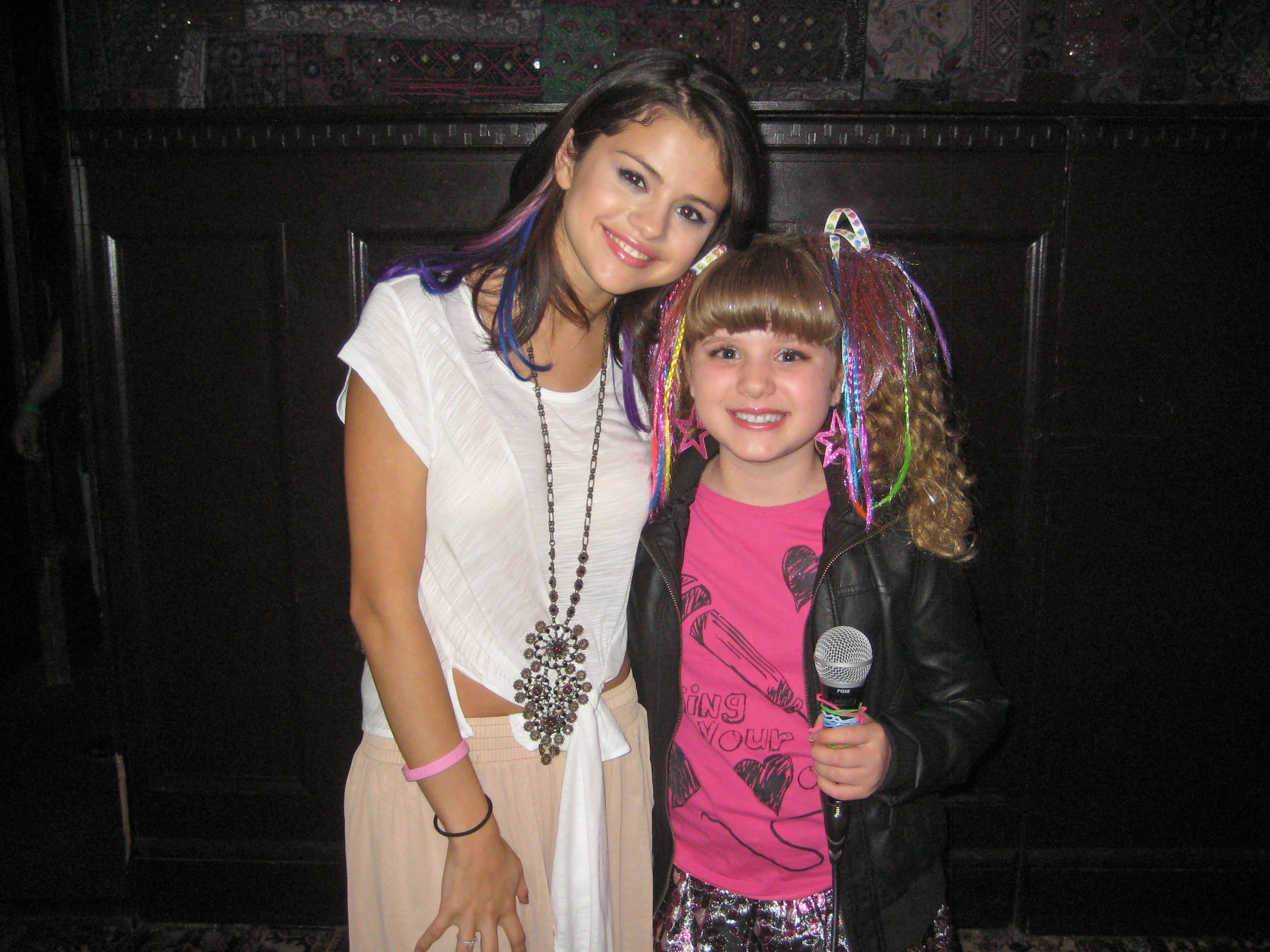 Piper Reese interviewing Selena Gomez during a UNICEF benefit at the House of Blues in Hollywood on January 20, 2012.